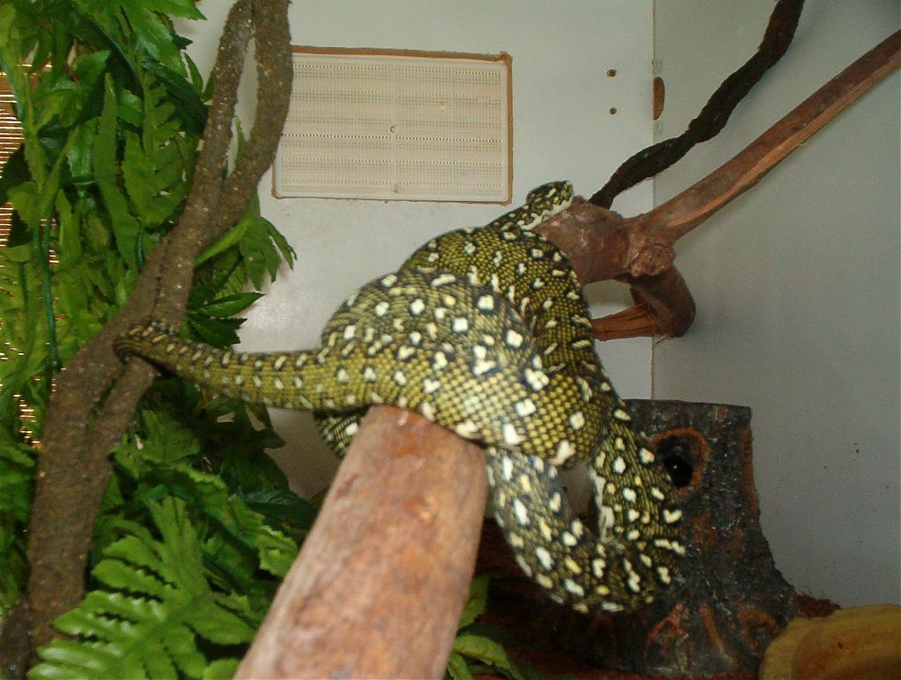 Morelia spilota spilota from [1] images were asked for release under GDFL. The python's name is MissD, from